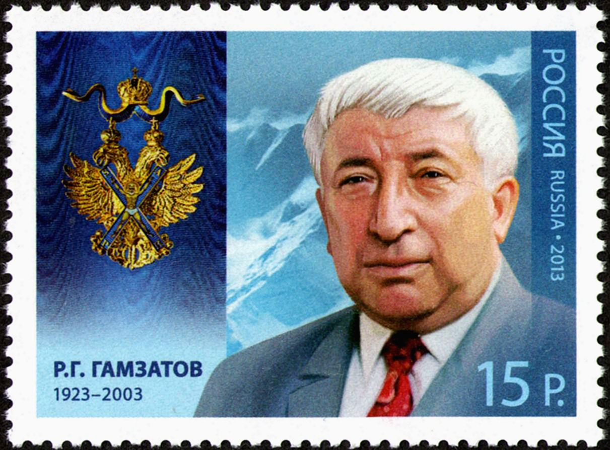 Recipients of the Order of St. Andrew the Apostle the First-Called (the ongoing series, issue III). Rasul Gamzatov[1] (1923–2003), a Soviet and Russian Avarian poet and a public figure. There depicted the badge of the Order of St. Andrew on the left. The stamp of Russia, 15.00 Rubles, 28 June 2013, PTC Marka Catalogue No 1709, Michel No 1941. Coated paper. Offset printing, varnish coating. Perforation: comb 12×11½. Size of the stamp: 50×37 mm. Print run: 385,000.